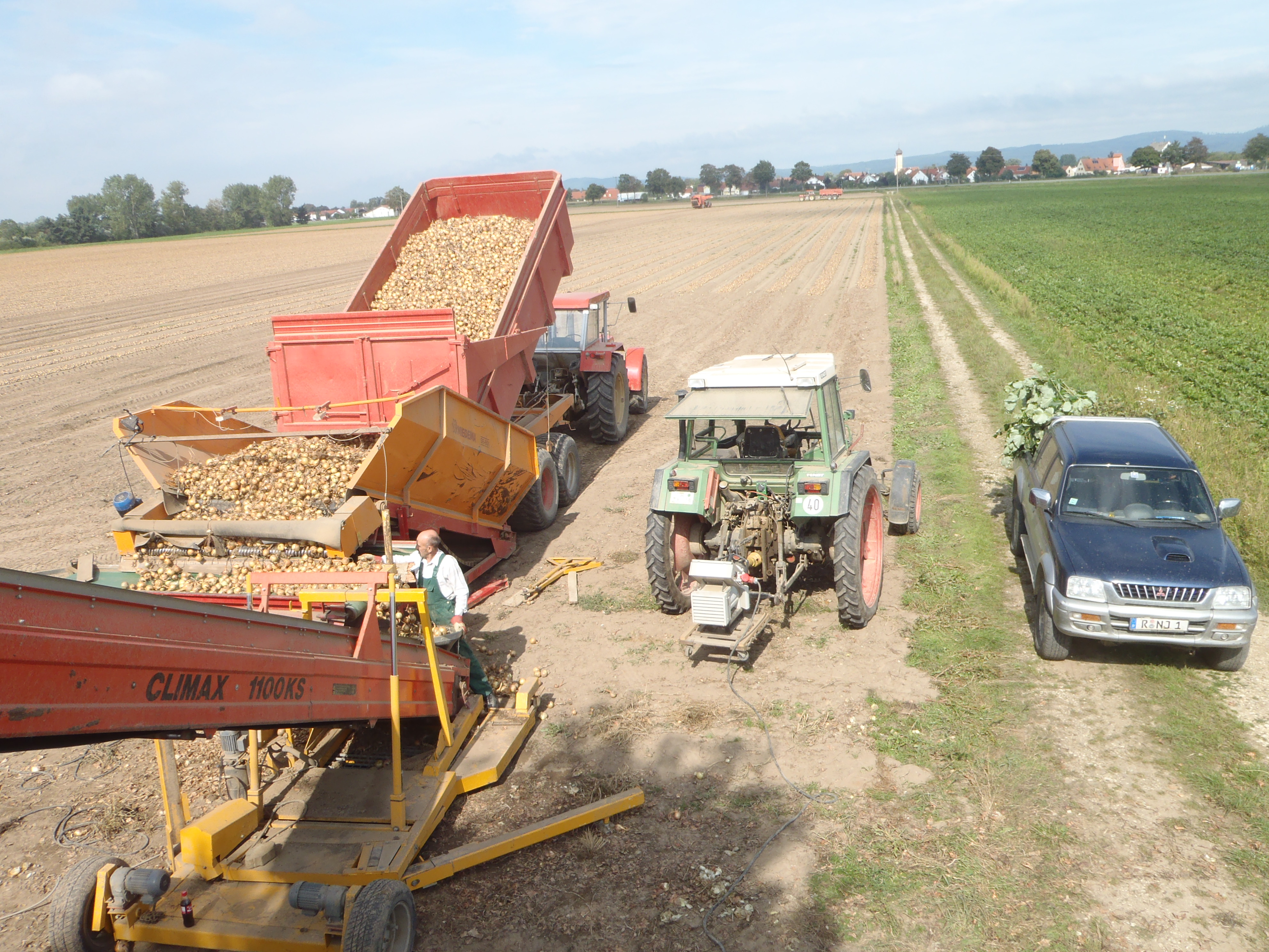 Onion harvest in Bavaria (in or near Regensburg presumably)